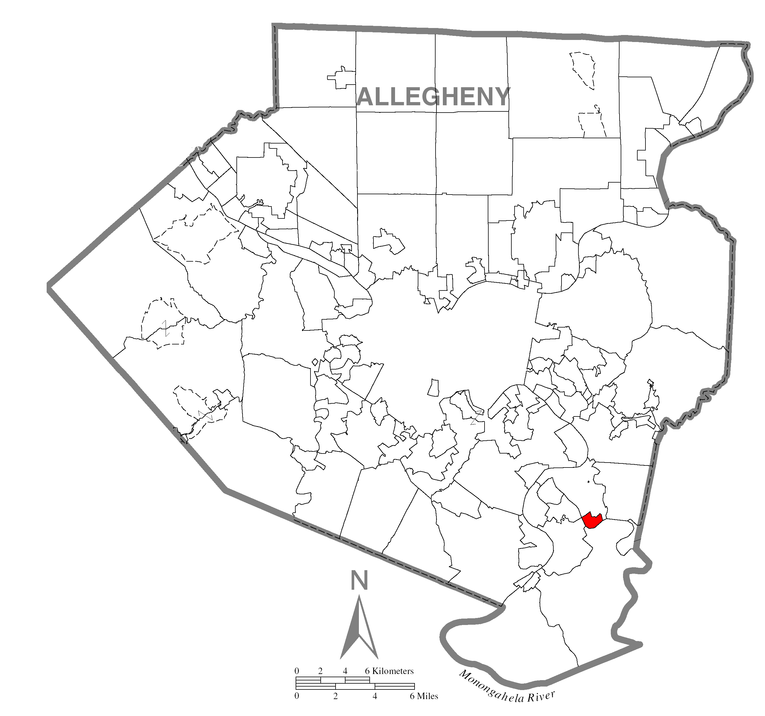 A map of Allegheny County showing Versailles, Pennsylvania (alternate) highlighted on the map.